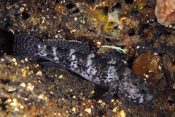 Gobius paganellus photographed in Tuscany (Italy). Photo by Stefano Guerrieri.